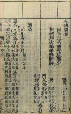 Page from the Zuo_Zhuan